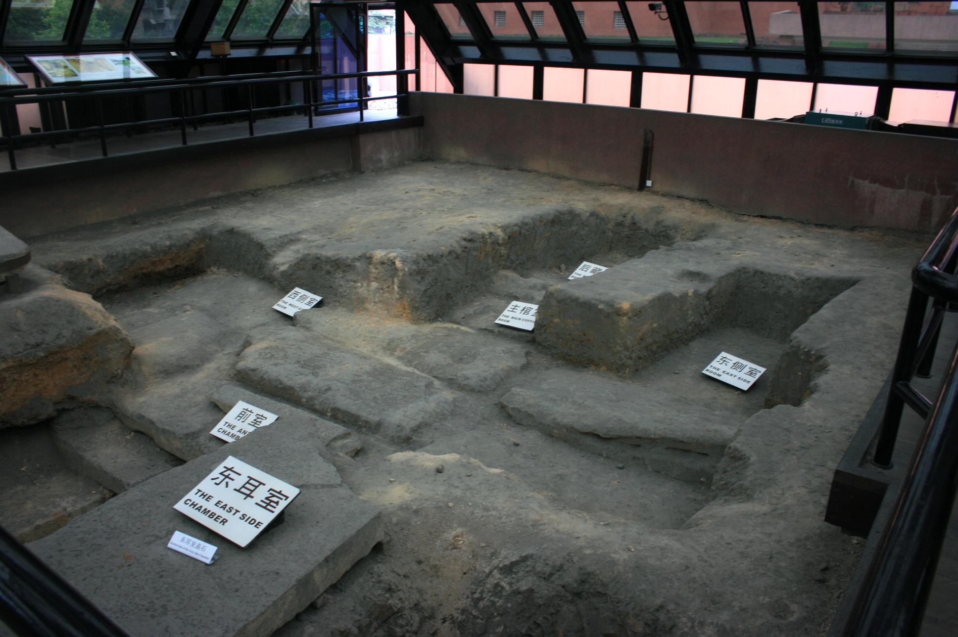 View of the tomb of Zhào Hú, King of Nanyue in Guangzhou, China from above.